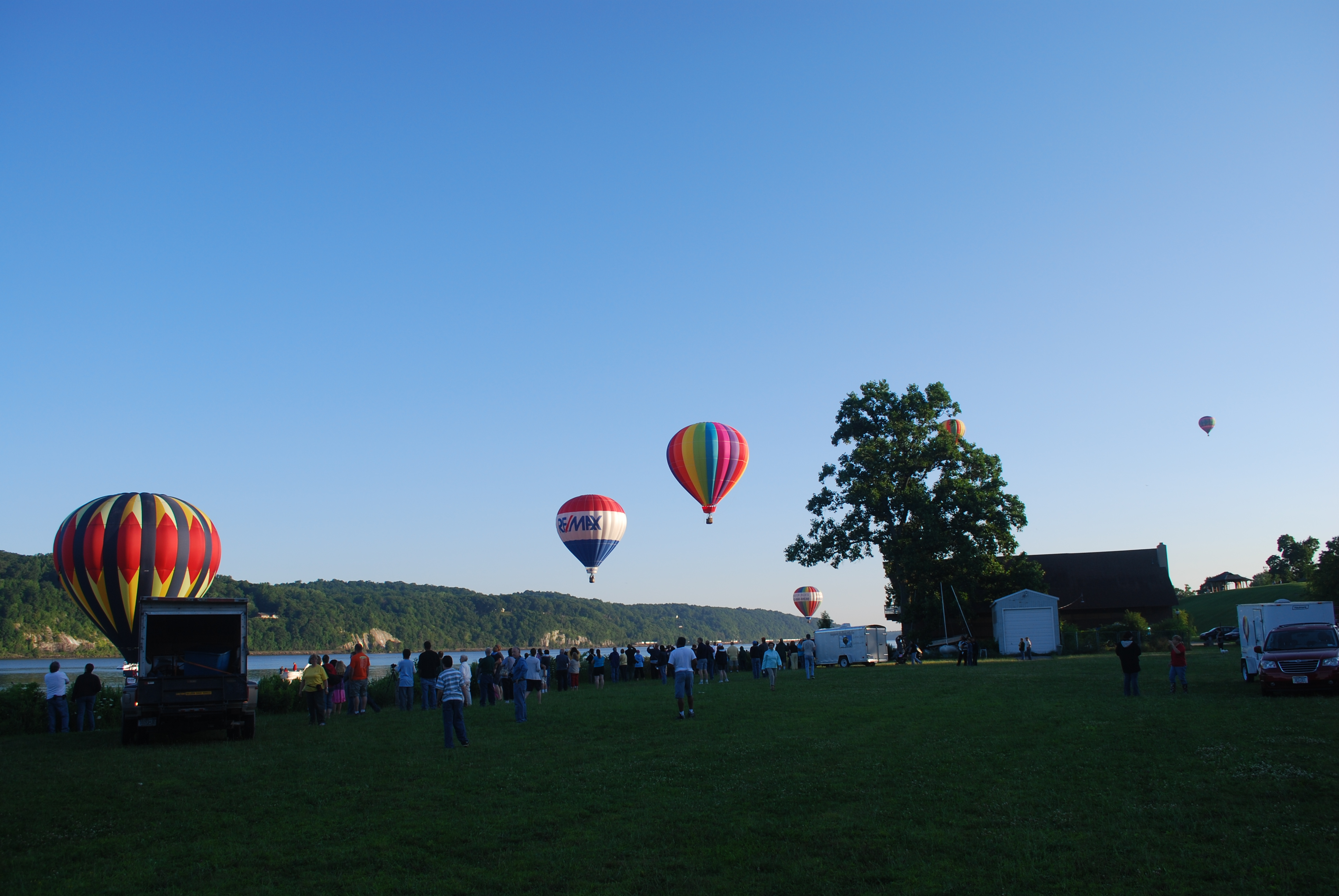 The Mid-Hudson hot air balloon festival in Poughkeepsie, New York, along the Hudson River